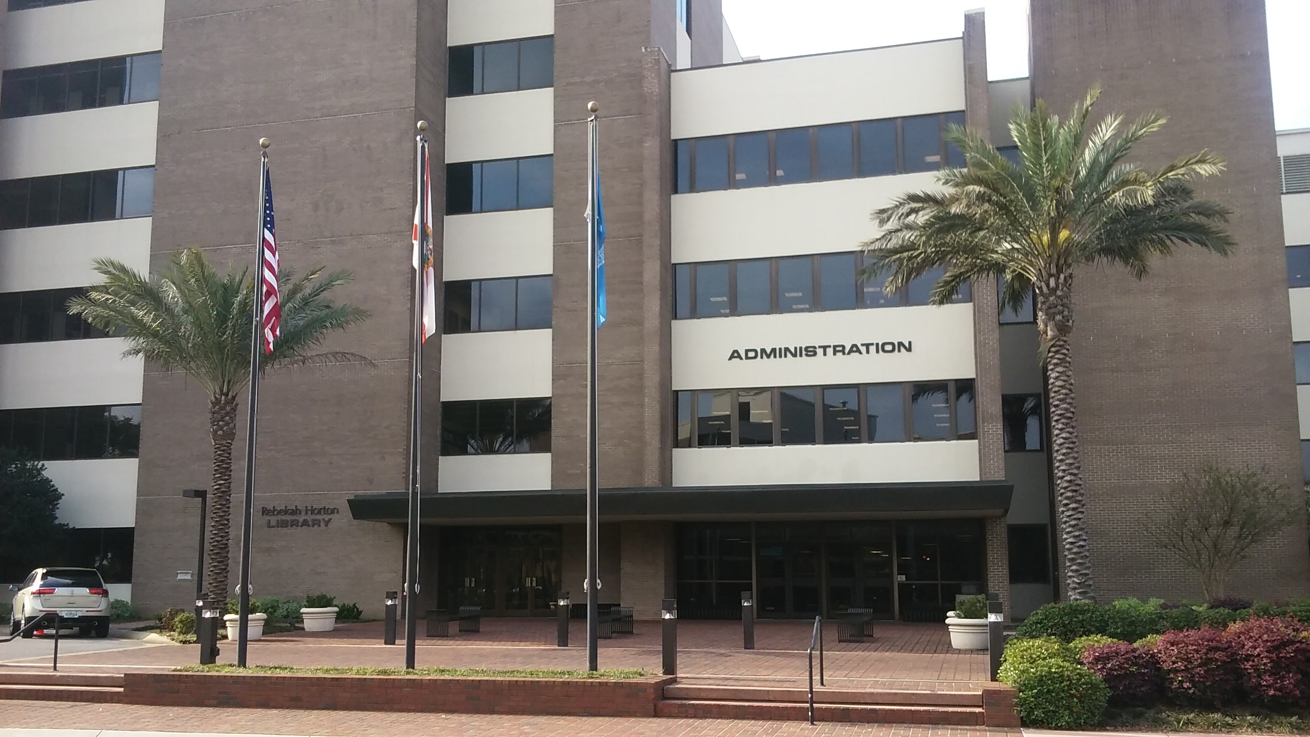 The main entrance to the administration and academic building of Pensacola Christian College. This was taken during College Days, a public event at the college.